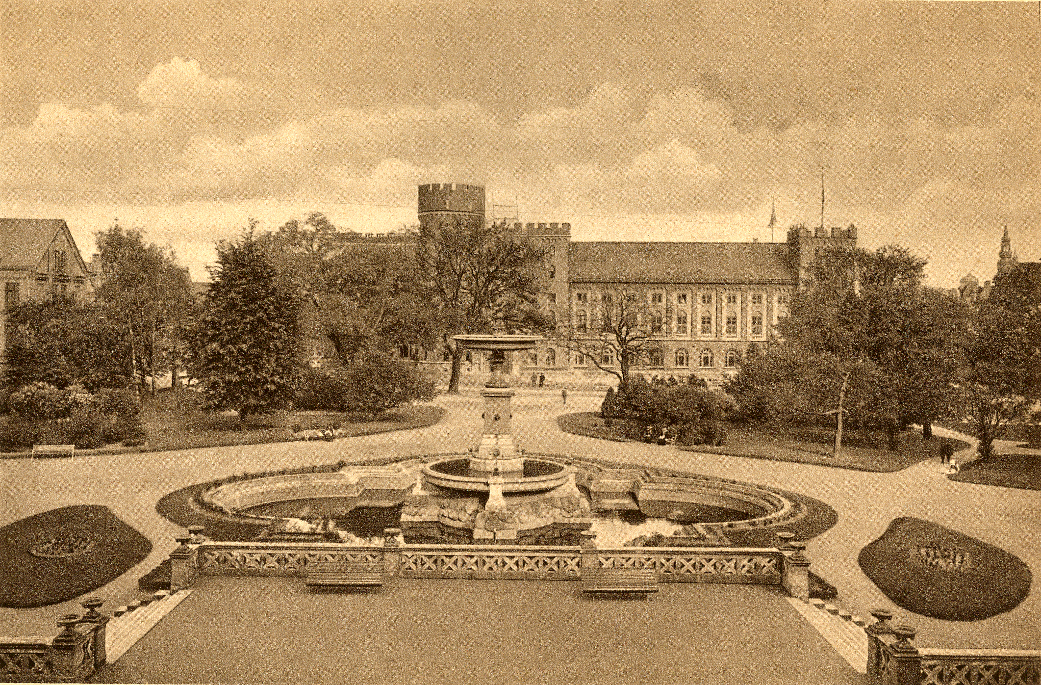 "Universitetsplatsen" (the University quadrangle) in Lund, Sweden, seen from the viewpoint of the main university building with the building of "Akademiska Föreningen" (the Academic Society) in the background.